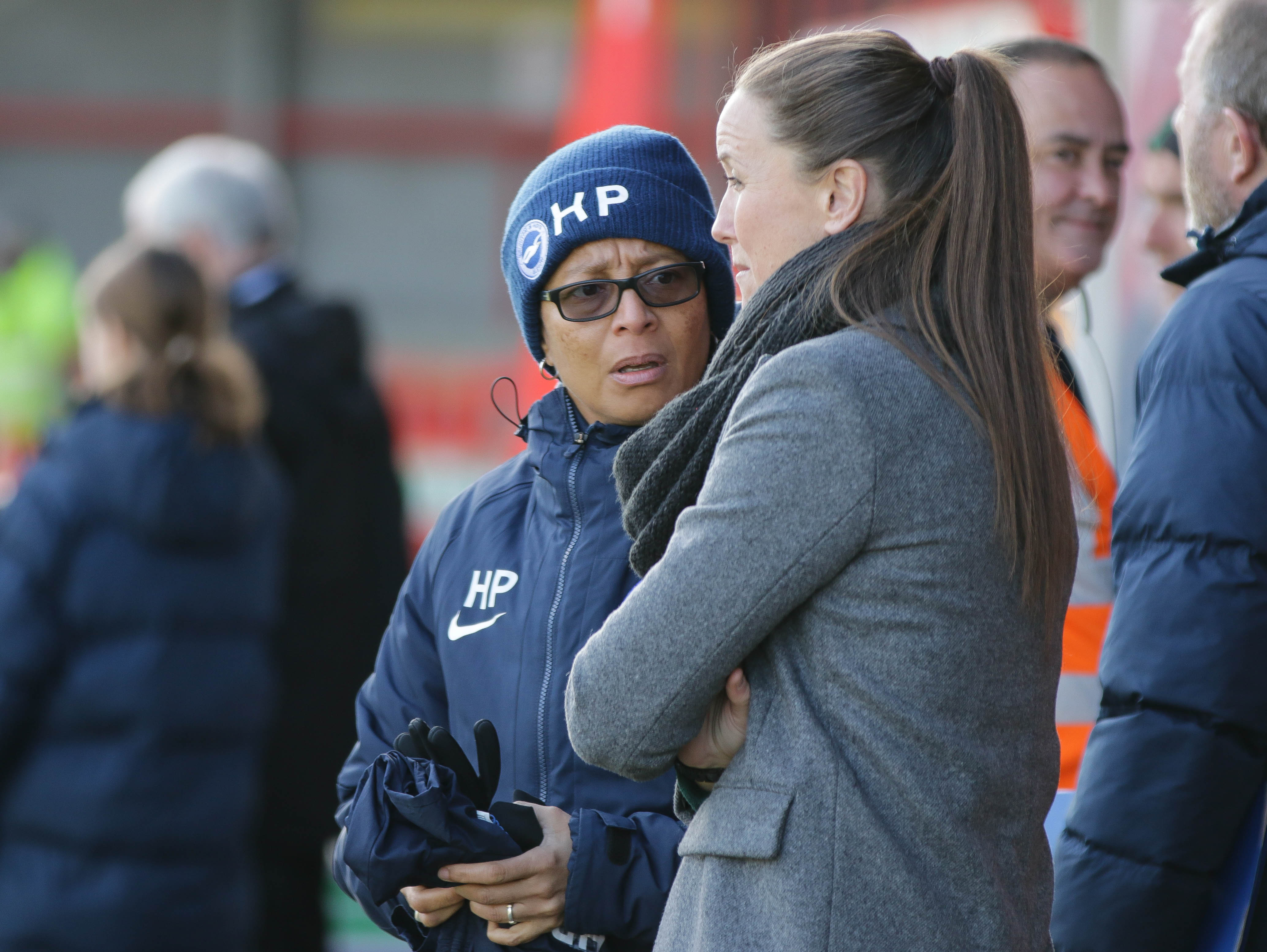 Hope Powell and Casey Stoney